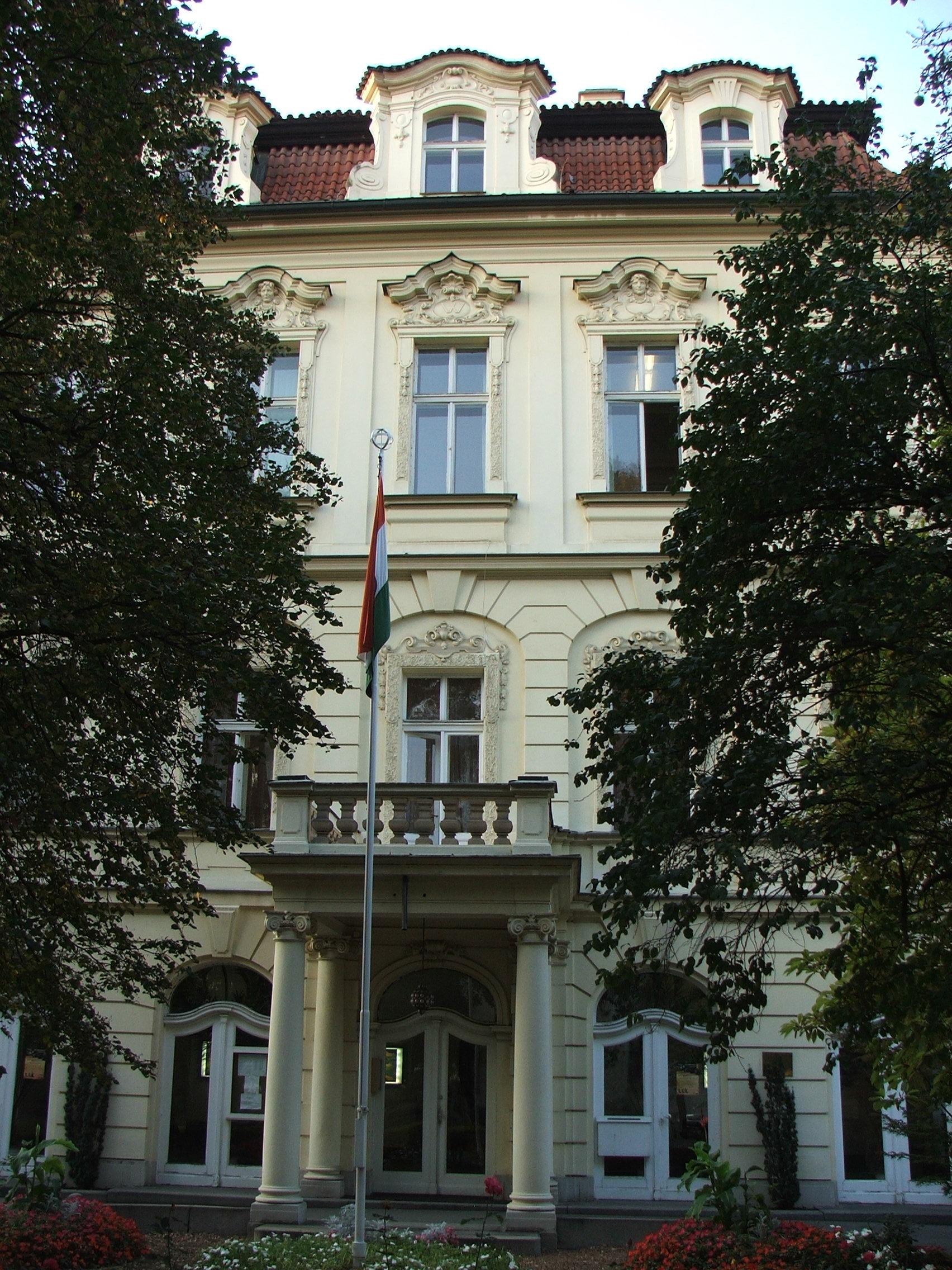 Former embassy of India in Prague-Malá Strana, Valdštejnská 152/6, Czechia.